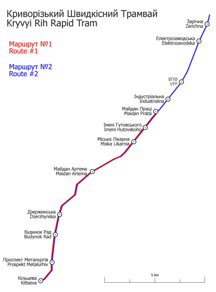 Map of Kryvyi Rih Rapid Tram in geographically accurate scale with routes color coded.